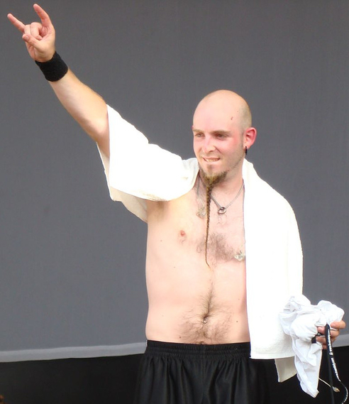 Frederik Ehmke, the drummer of German Heavy metal band Blind Guardian